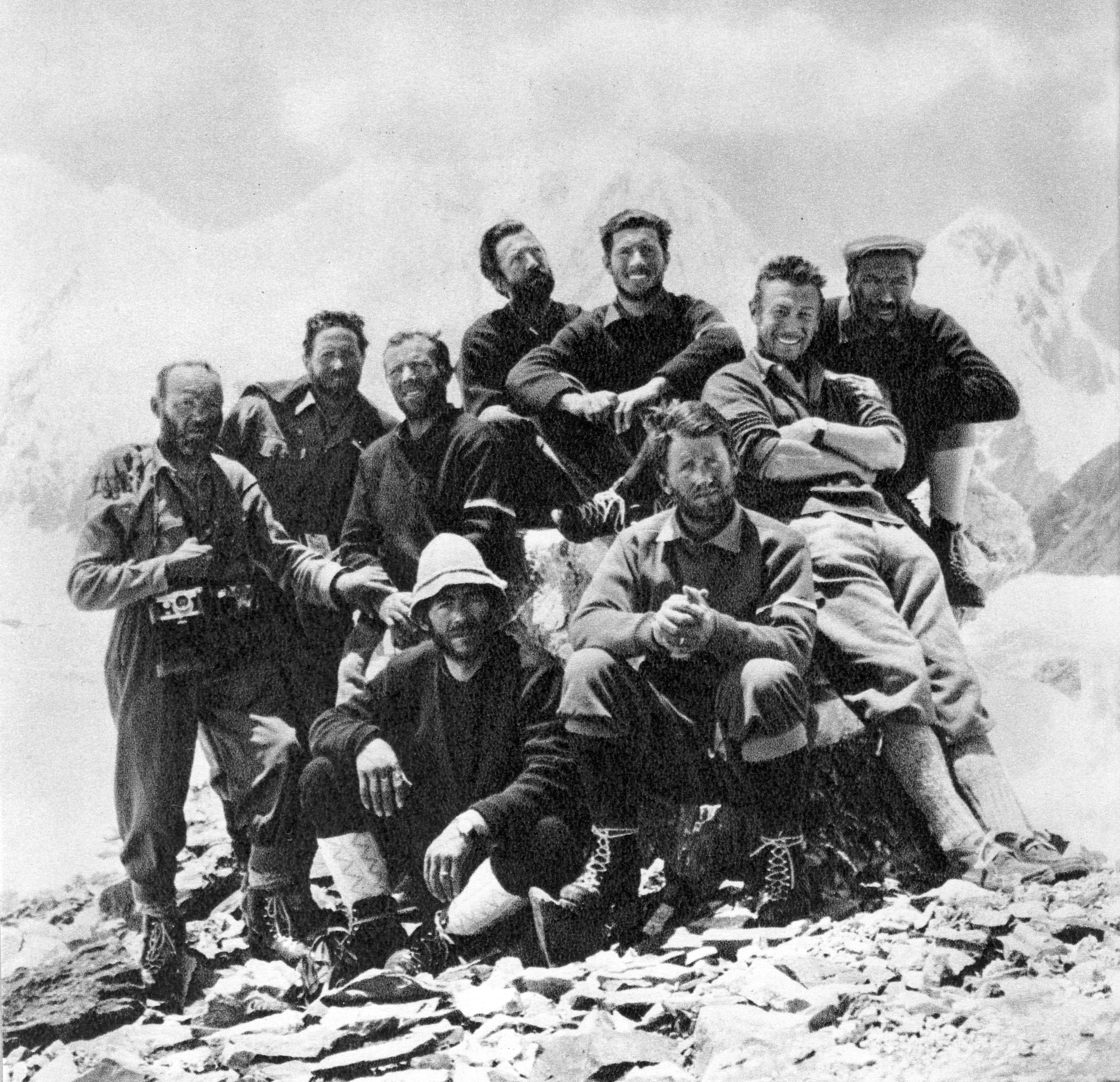 Components of the italian Gasherbrum IV expedition 1958, from left: leader Riccardo Cassin; liaison officer Capt. A.K. Dar; Giuseppe Oberto, doctor Donato Zeni, Walter Bonatti, cameraman and photographer Fosco Maraini, Toni Gobbi; first row: Giuseppe de Francesch, Carlo Mauri.